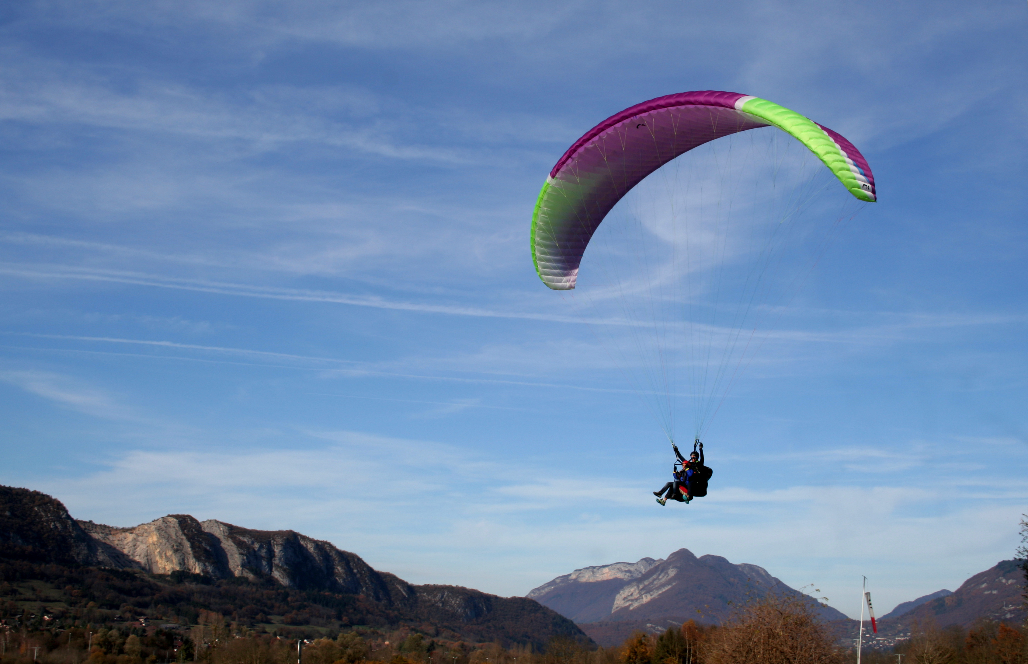 Paragliding with a child, Haute-Savoie, France.